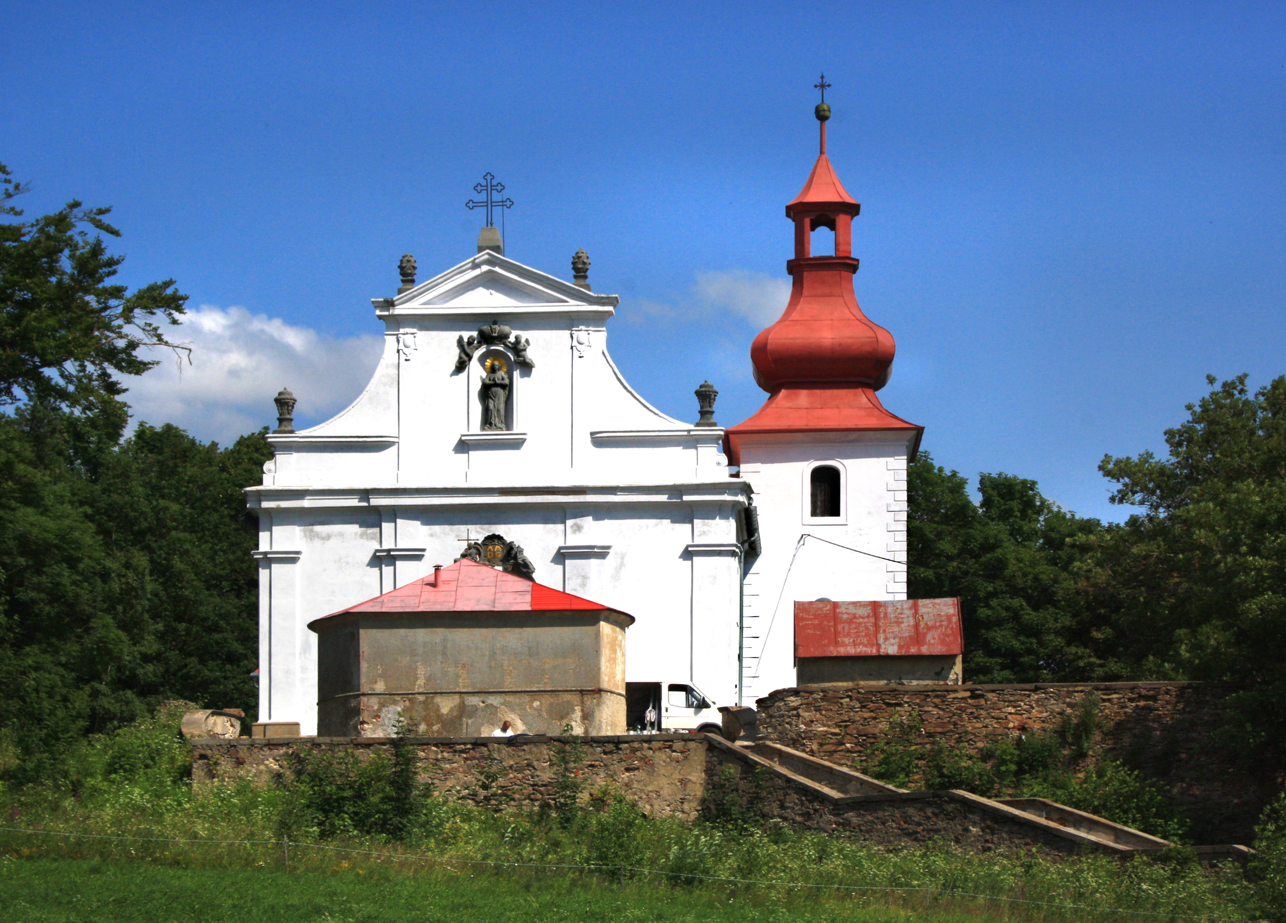 Church in Květnov, part of Blatno, Czech Republic